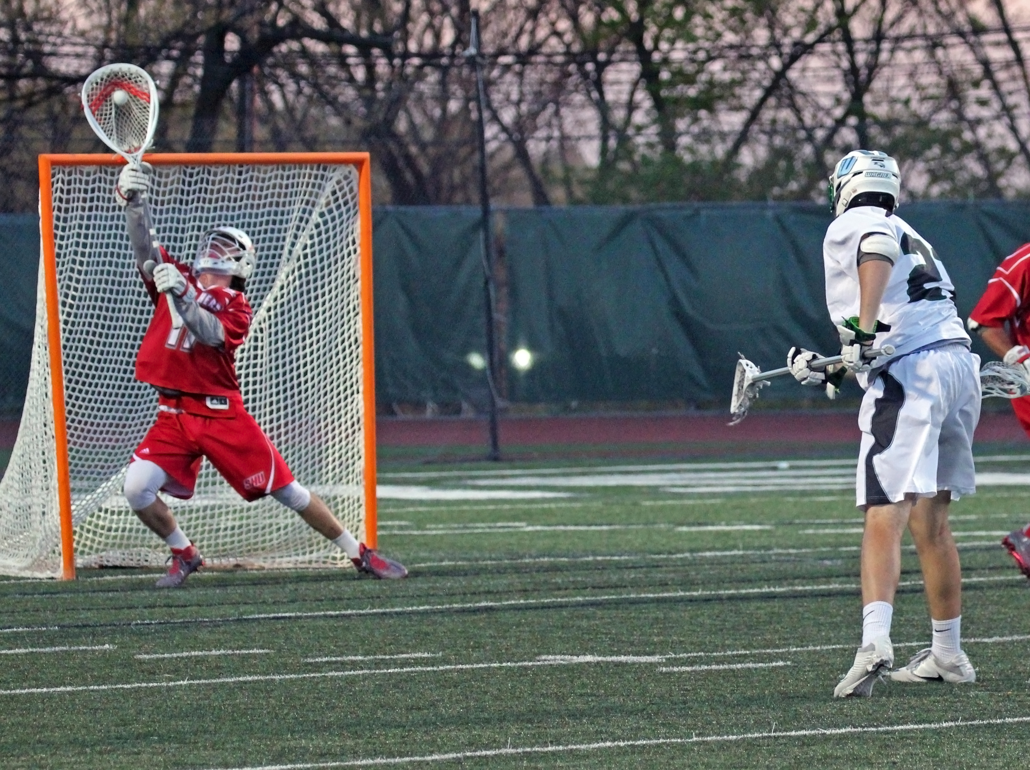 The goalkeeper for the Sacred Heart University men's lacrosse team makes a save on a shot by a Wagner University player.